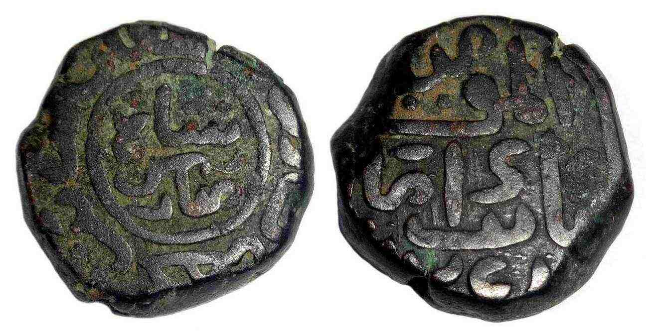 Date AH (83)5